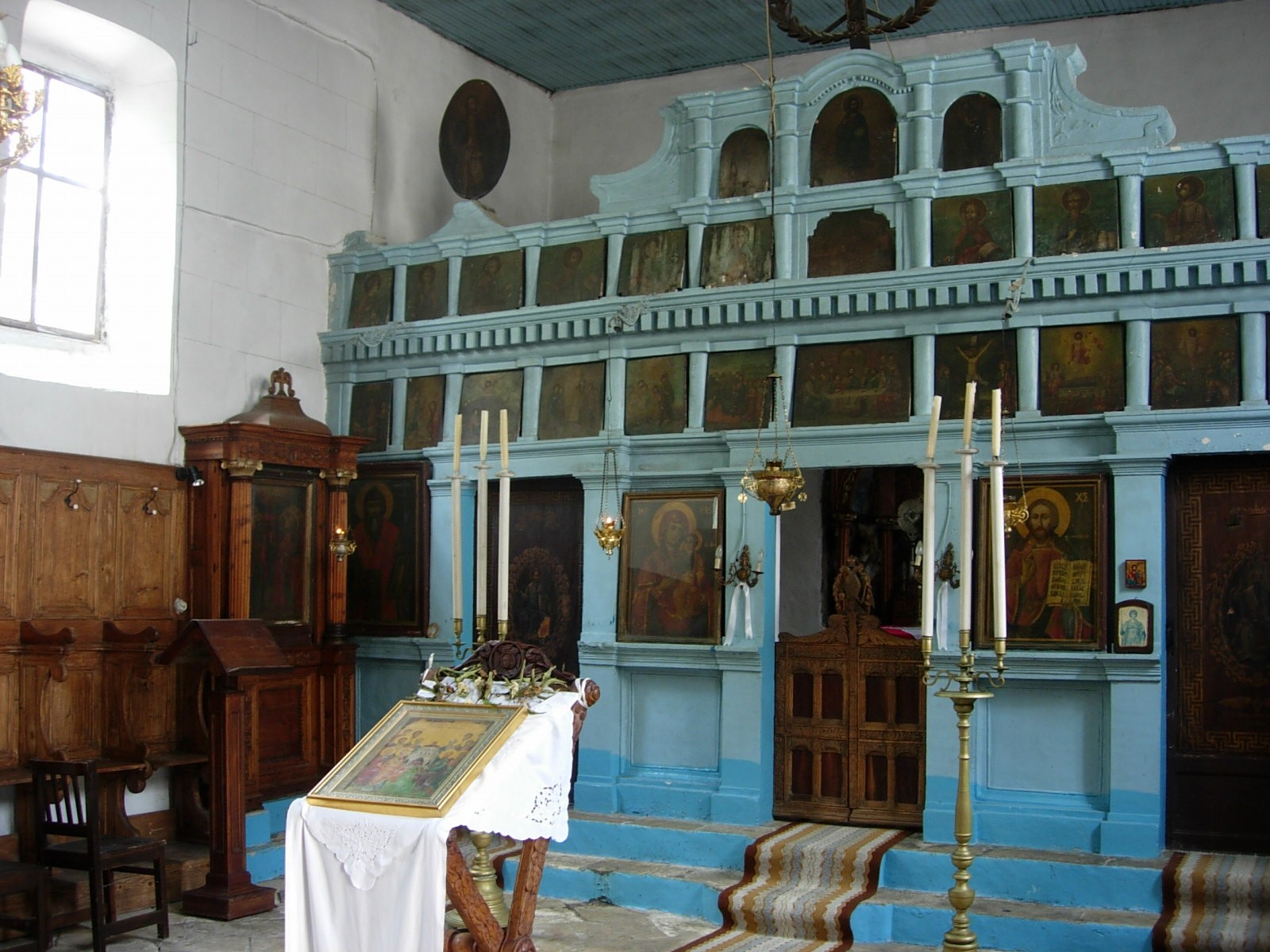 This is one of the several small churches of Parga, I. N. dodeka apostolon.